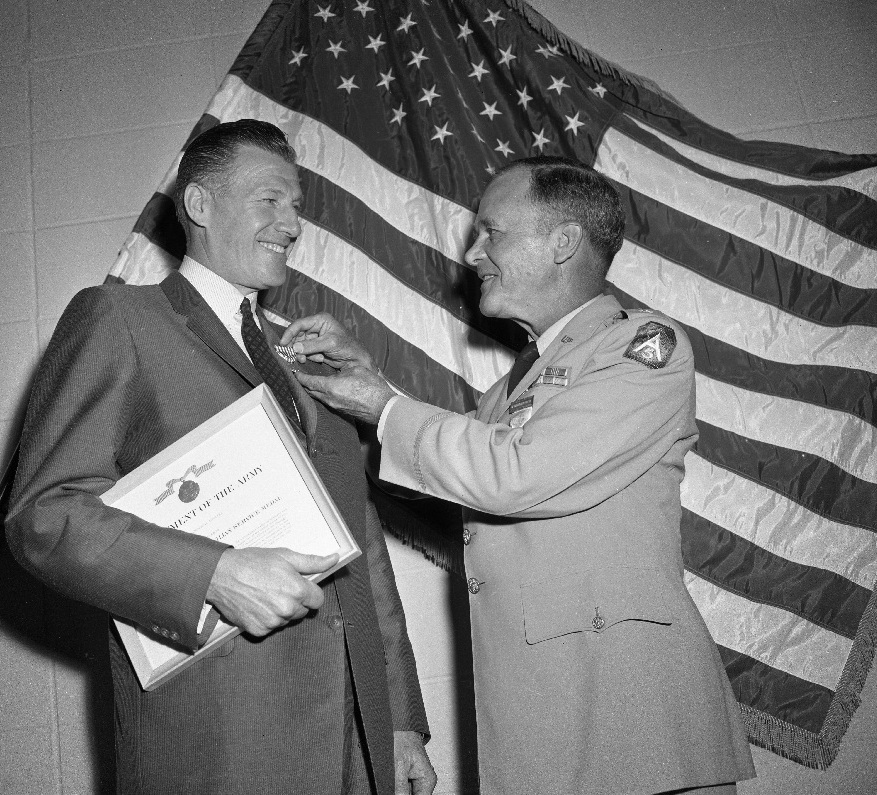 General E.L. Cummings presents an award to Thomas H. Coulter, Chief Executive Officer of the Chicago Association of Commerce and Industry, July 29, 1961.